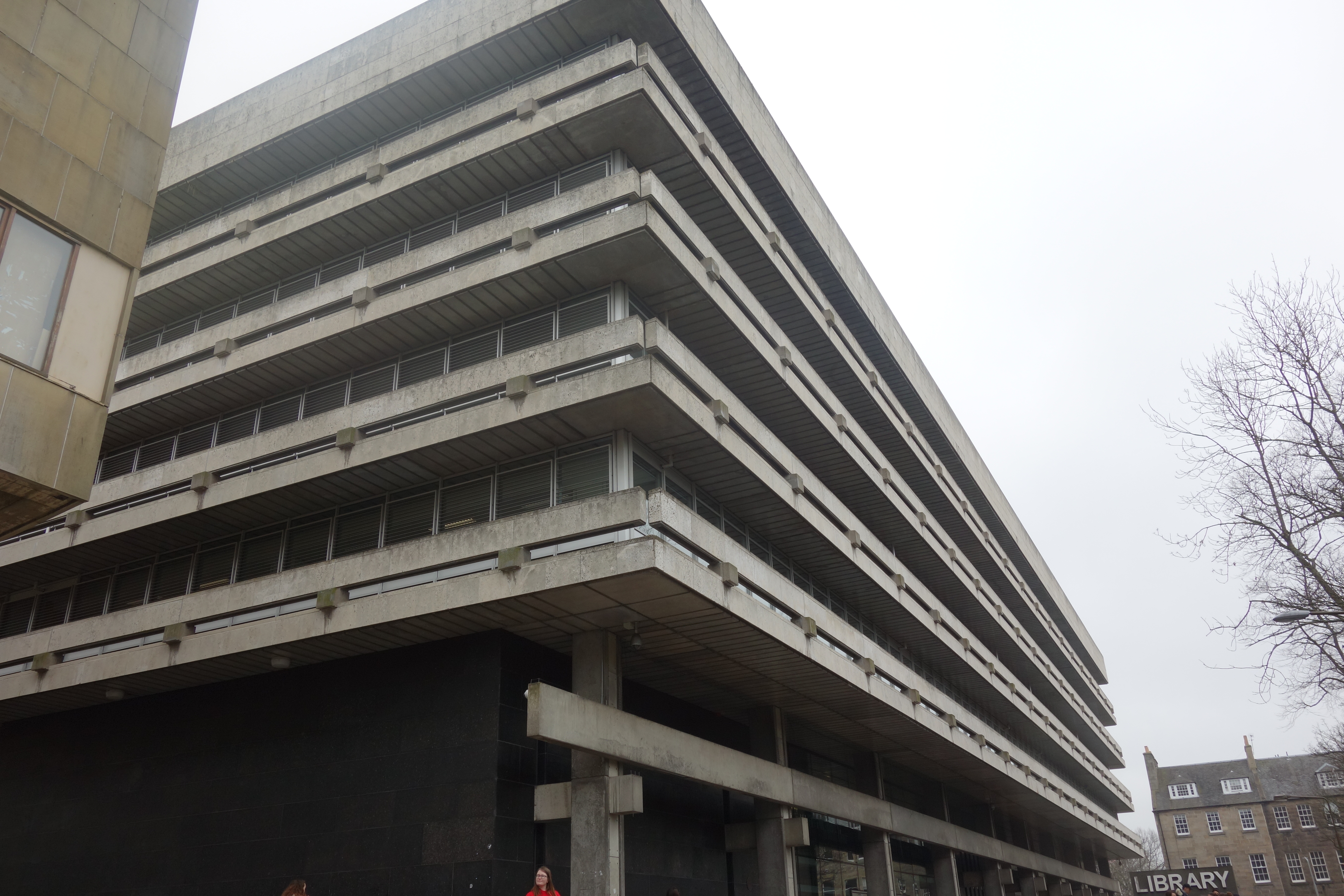 Edinburgh University Library, 2017